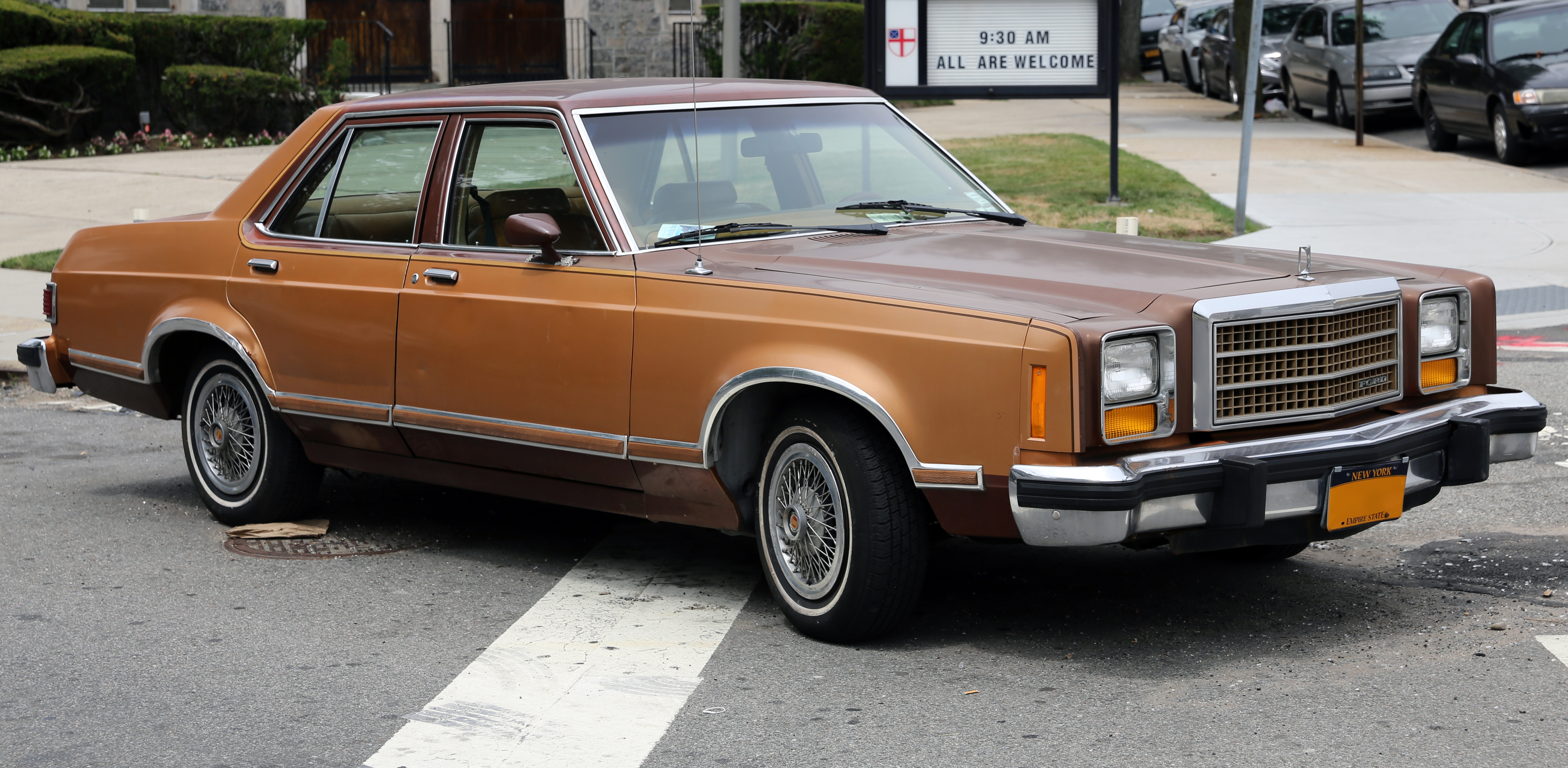 1980 Ford Granada four-door sedan with the 4.1 litre (250 ci) "Thriftpower" inline-six with a single carburator. Built in Wayne, MI. Wacky two-tone paintjob, parked next to a church (naturally) in Hollis, Queens, NY.